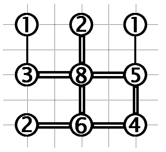 Example of hashiwokakero game. Grid of 5x5 that shows how place brigdes between islands with values «8», «6», «5», «4», «3», «2» and «1».